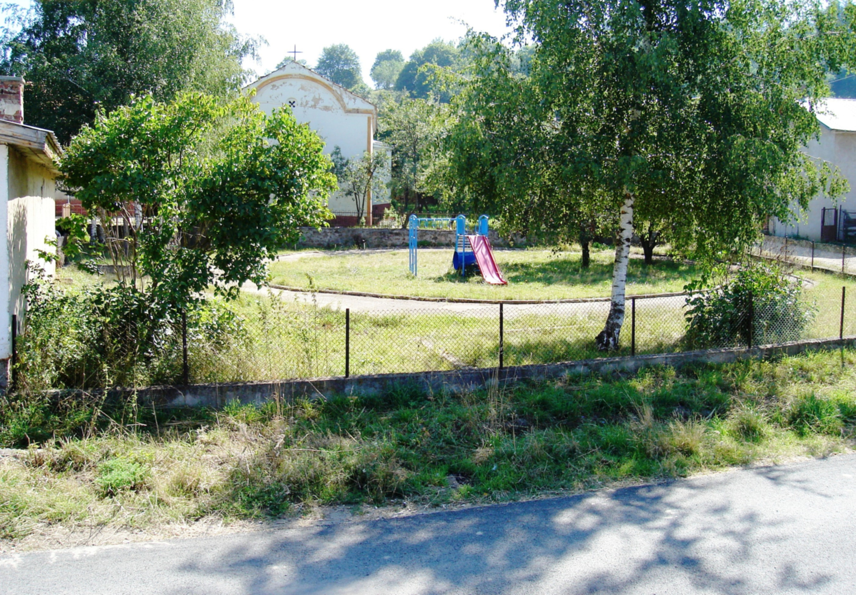 General view of village Gigintsi, Bulgaria